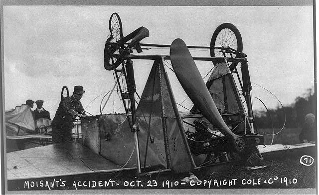 John Moisant, Accident - 23 October 1910 - overturned plane.